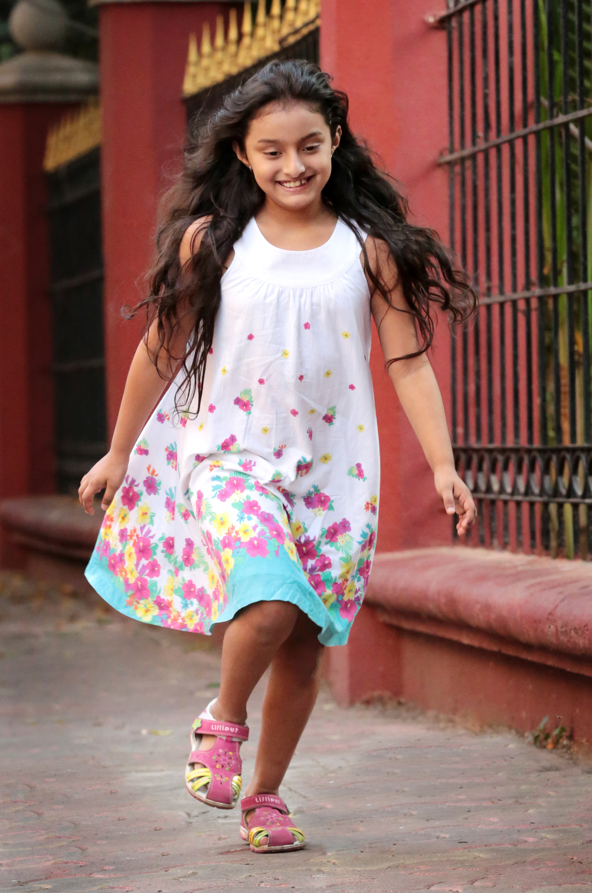 Reet Sharma in 2014